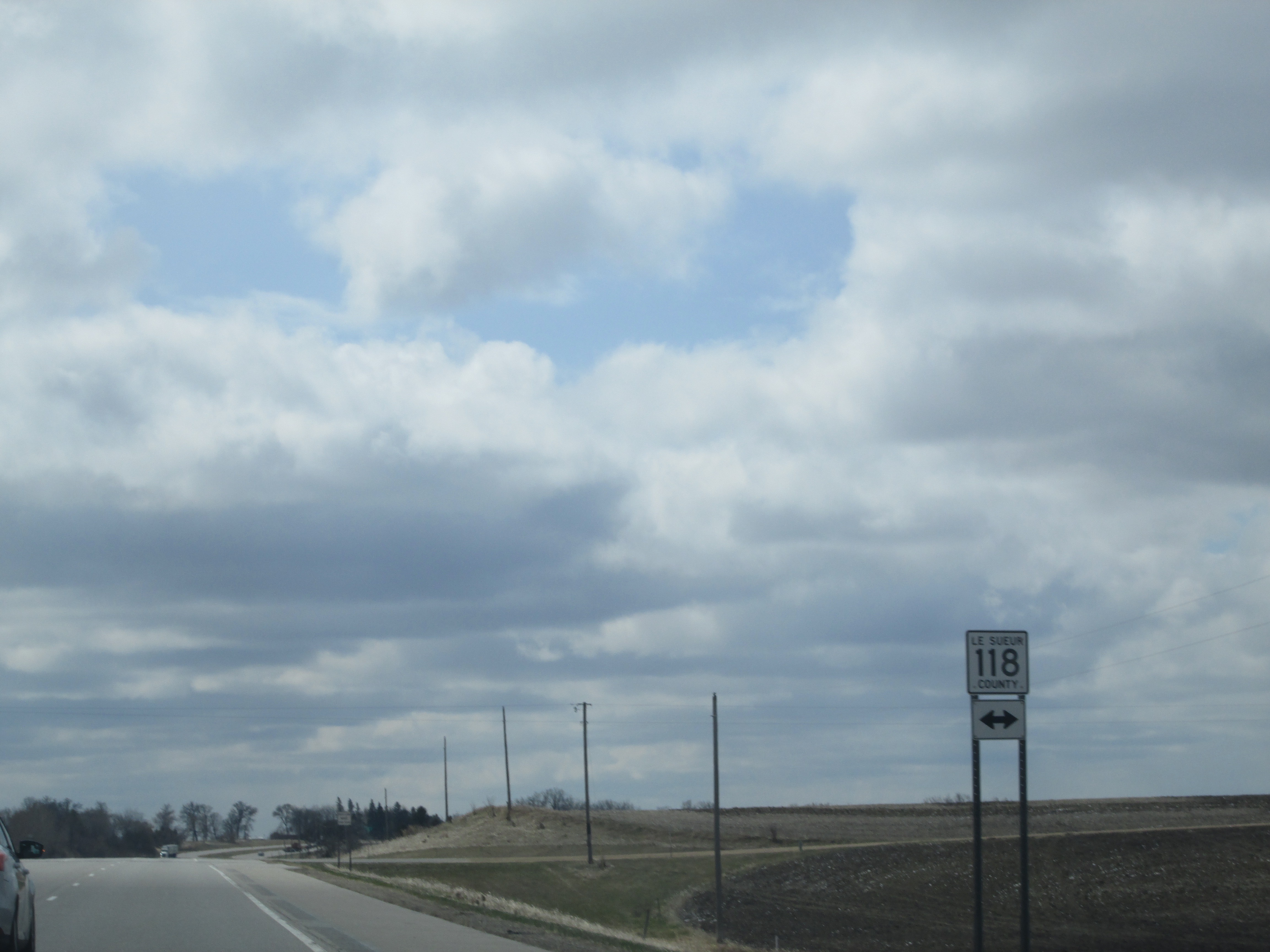 Intersection of Le Sueur CSAH 118 and US 169 in Tyrone Township.